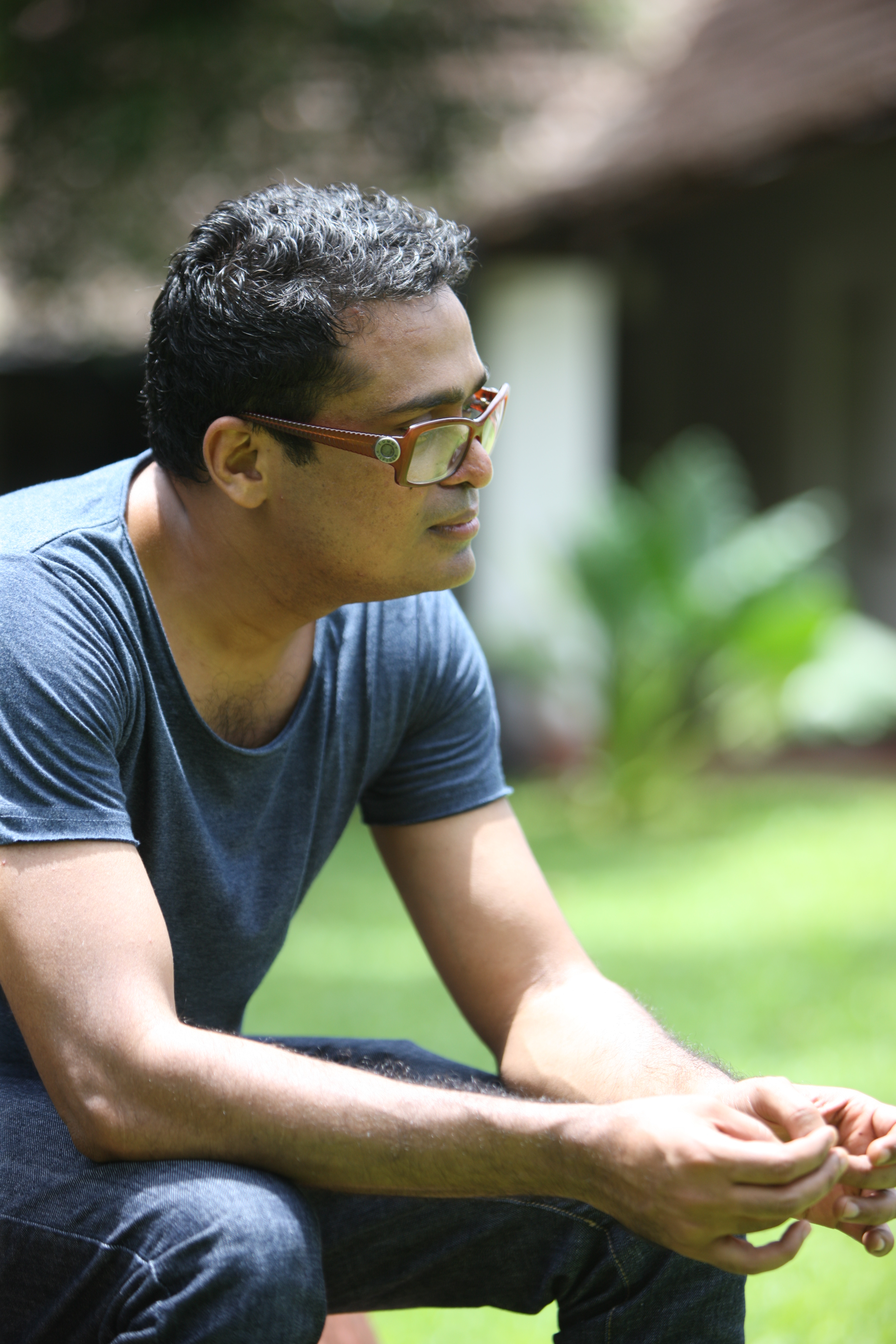 Artist